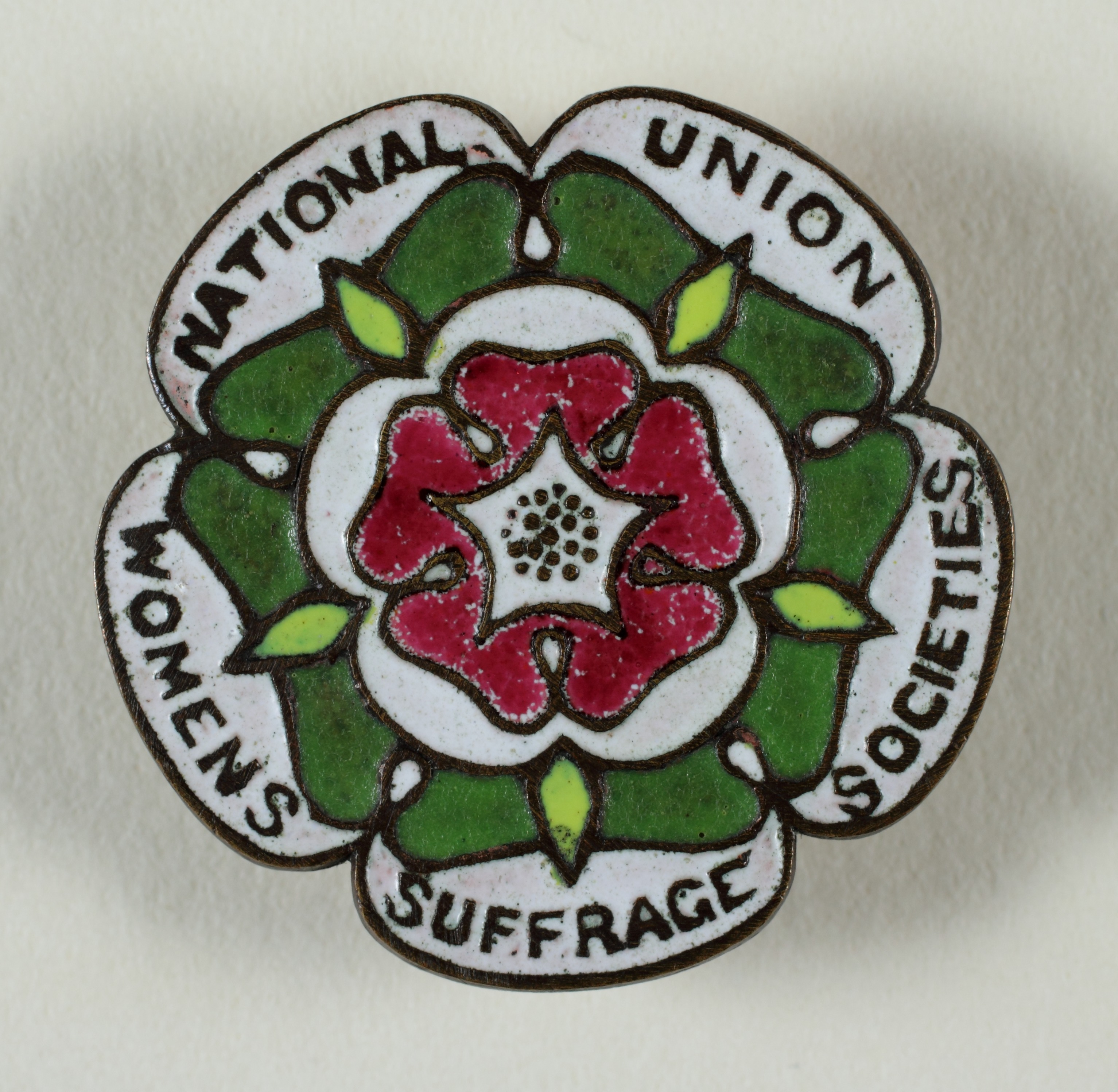 TWL.2004.584.1Badge, metal, enamel, rose shaped, scalloped edge, produced by the National Union of Women's Suffrage Societies, red, green, black and white rose design with black inscription: 'National Union of Women's Suffrage Societies' around the edge, black border.